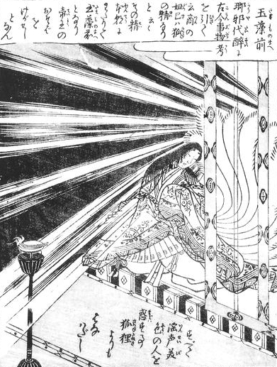 Tamamo-no-Mae (玉藻前, a wicked nine-tailed fox who appeared as a courtesan) from the Konjaku Gazu Zoku Hyakki (今昔画図続百鬼)